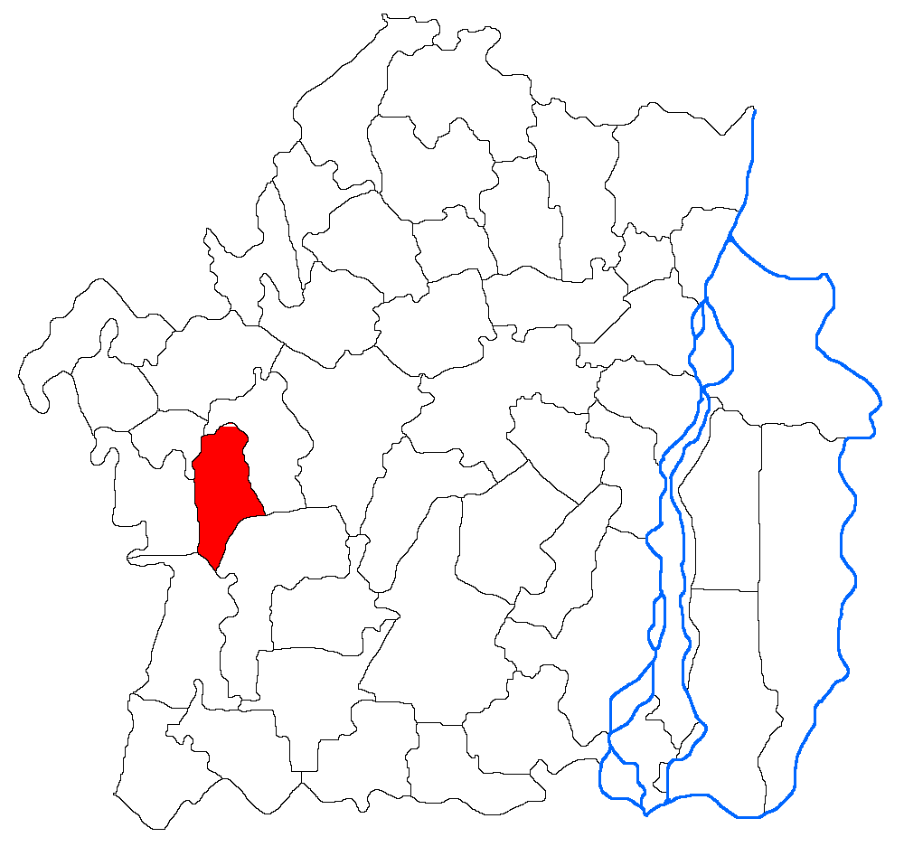 Limits of the commune of Surdila-Găiseanca in Brăila County, Romania